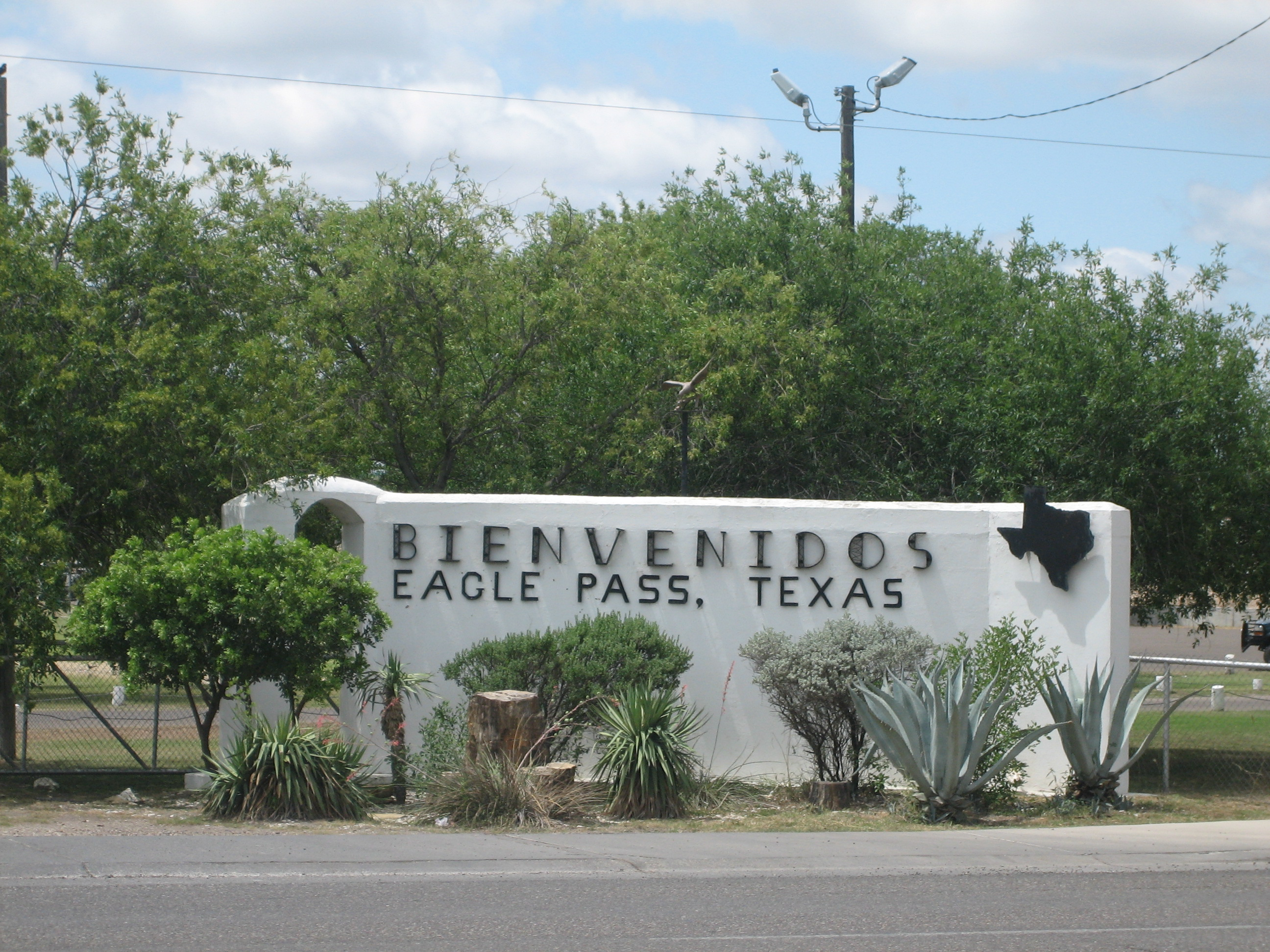 I took photo on May 17, 2009.Billy Hathorn (talk) 23:46, 17 May 2009 (UTC)